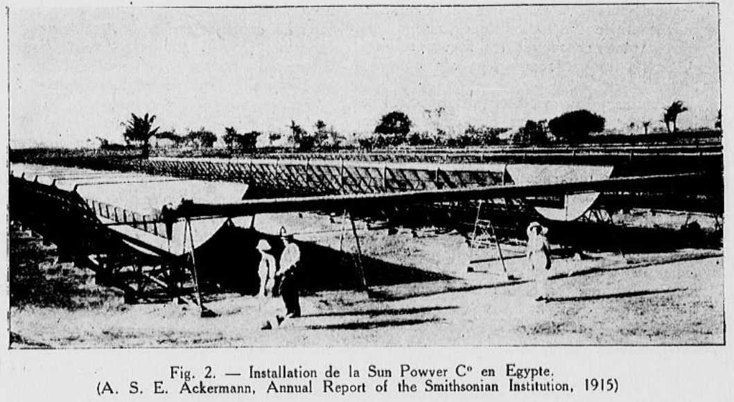 Solar installation of the Sun Power Cie in Egypt with a performance of 1HP / 17 m2